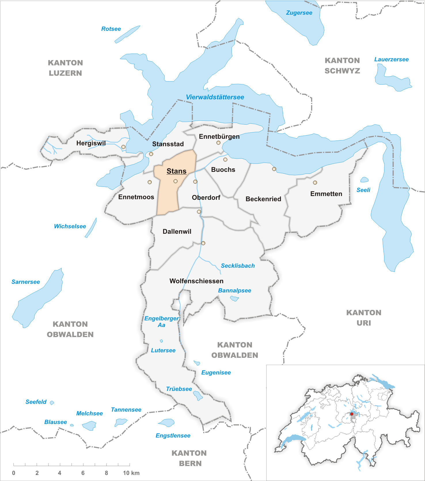 Municipality Stans